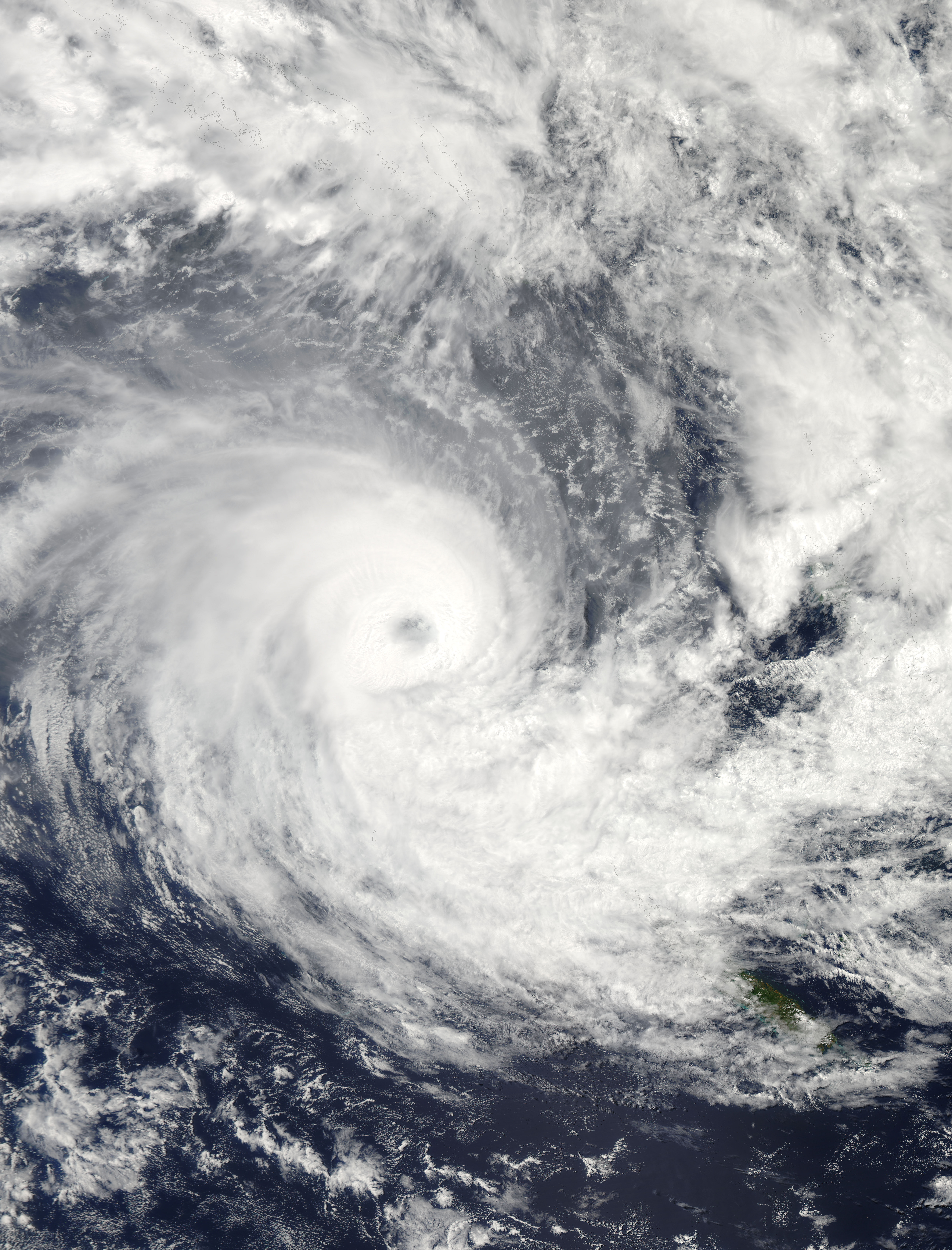 The Moderate Resolution Imaging Spectroradiometer (MODIS) on NASA’s Aqua satellite captured this natural-color image of Severe Tropical Cyclone Sandra as a category 3 equivalent tropical cyclone, near peak intensity in the Coral Sea on March 10, 2013.